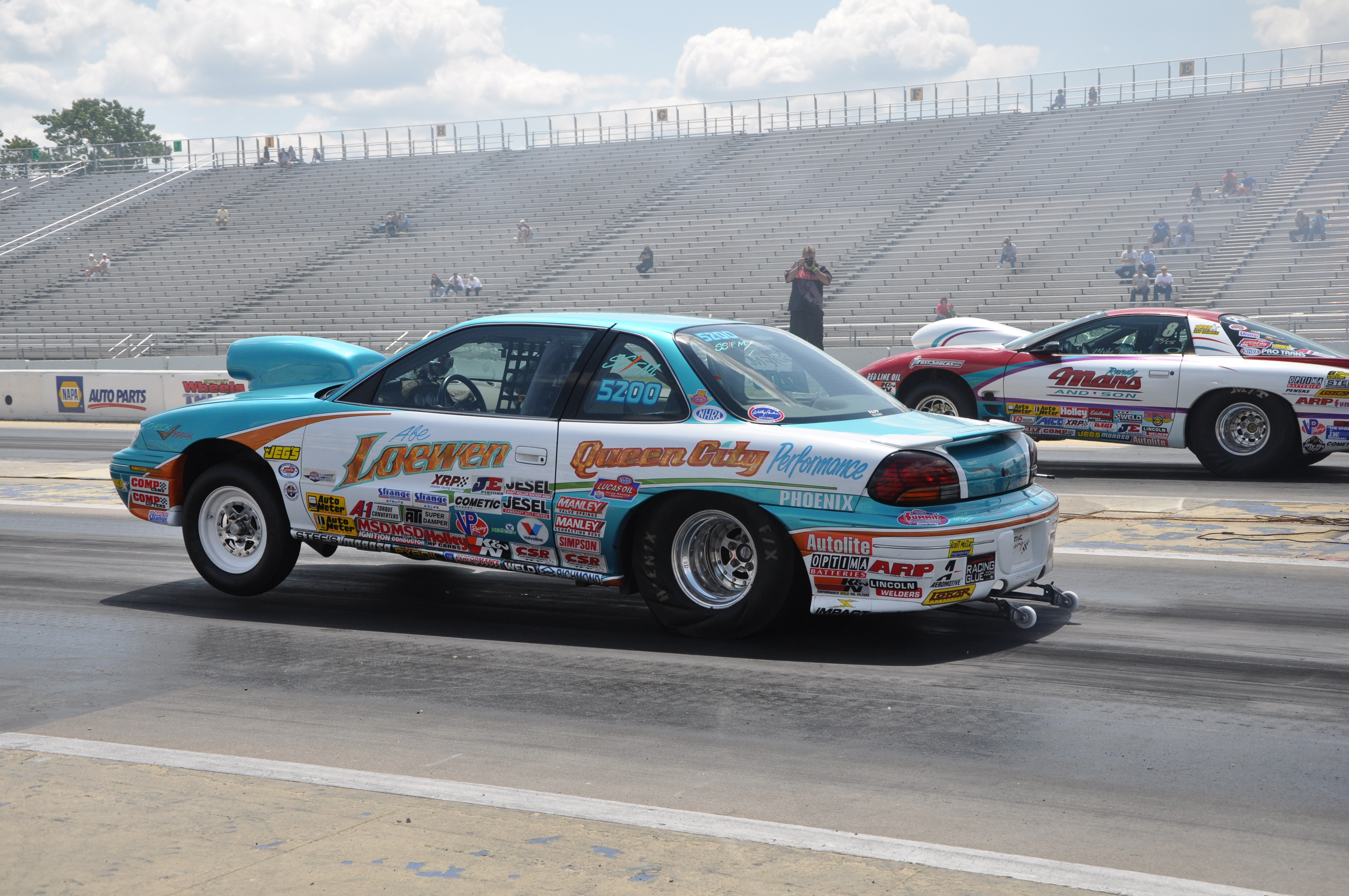 Abe Loewen SS/EM '98 Grand Am. 2010 NHRA Division 5 Super Stock Champion. Racing here at BIR in 2012